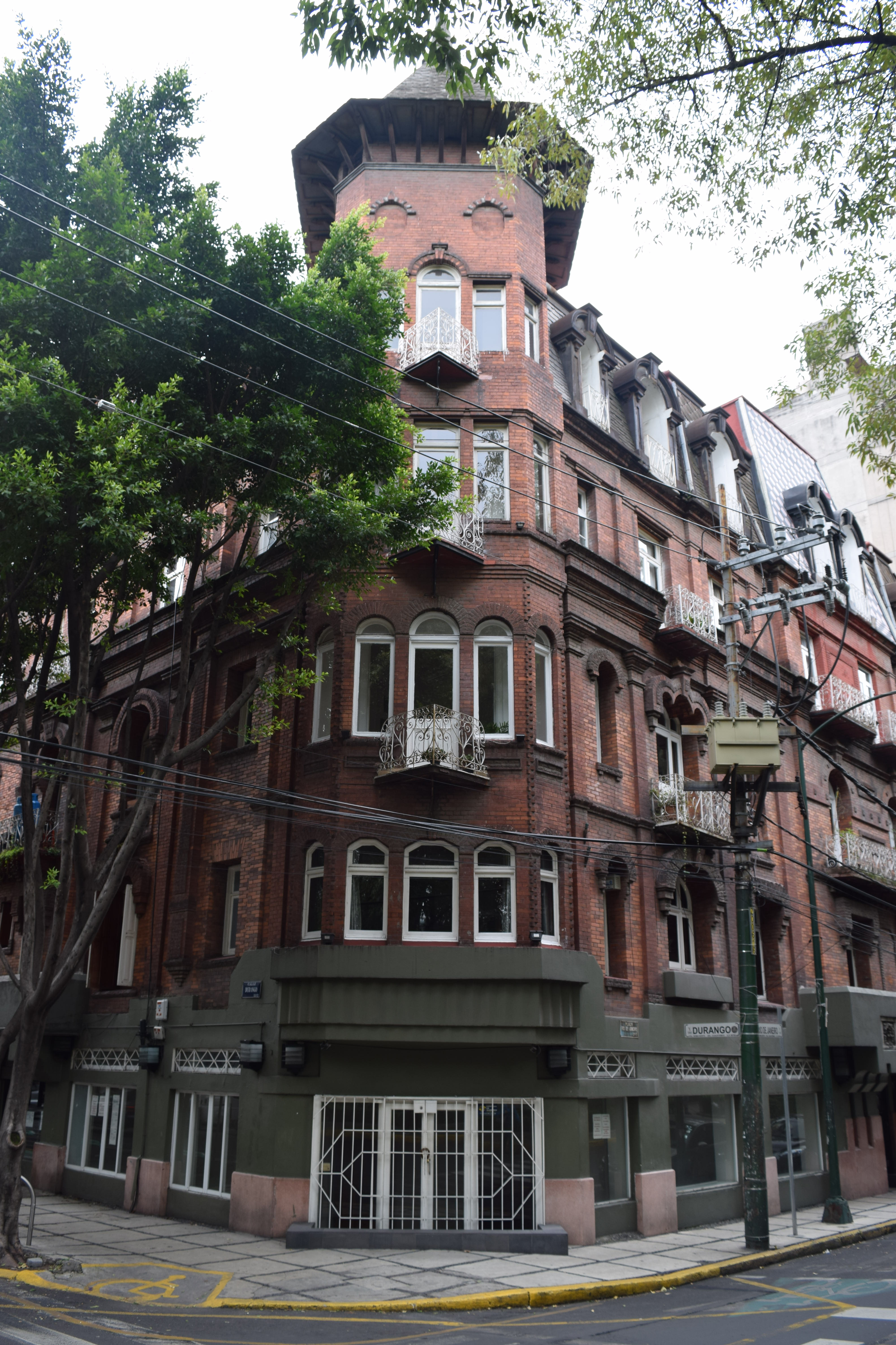 Corner of the Rio de Janeiro building, also known as "Casa de las brujas" ("House of the witches"), located at Colonia Roma in Mexico City.